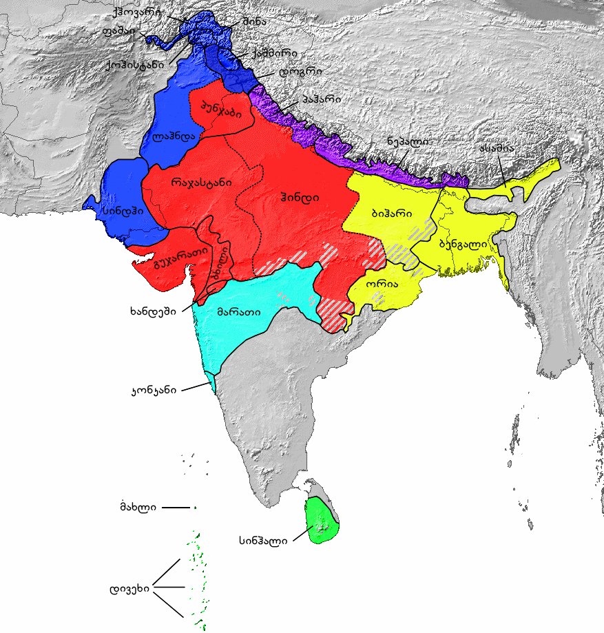 Georgian language map showing area Indo-Aryan languages are spoken.